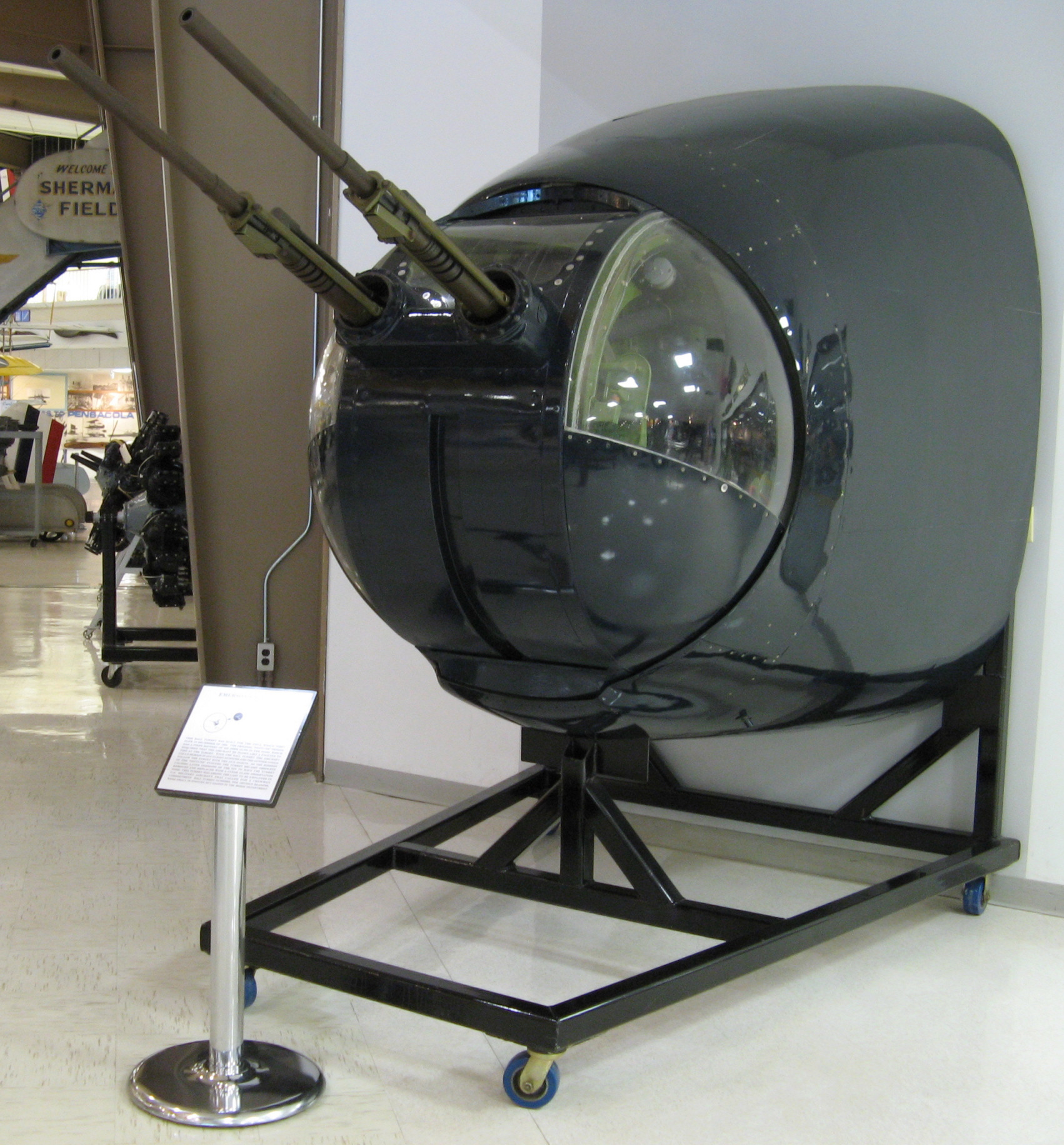 Emerson nose turret for Neptune, Naval Aviation Museum, Florida